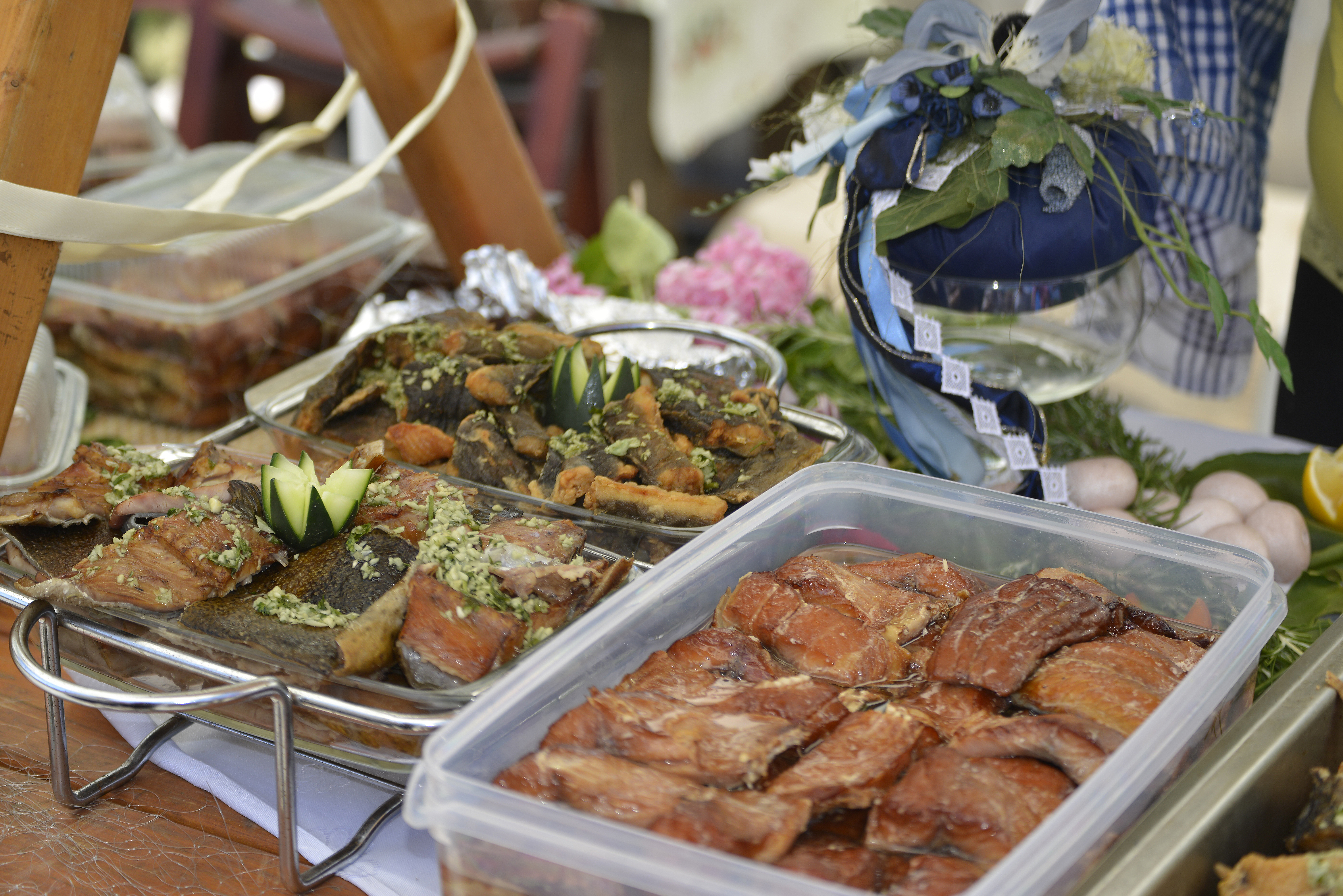 Various carp (Cyprinus carpio) specialties at the exhibit booth Srpski (latinica): Različiti specijaliteti od krapa (šarana - Cyprinus carpio) na izložbenom štandu This photo has been taken in the country: Montenegro